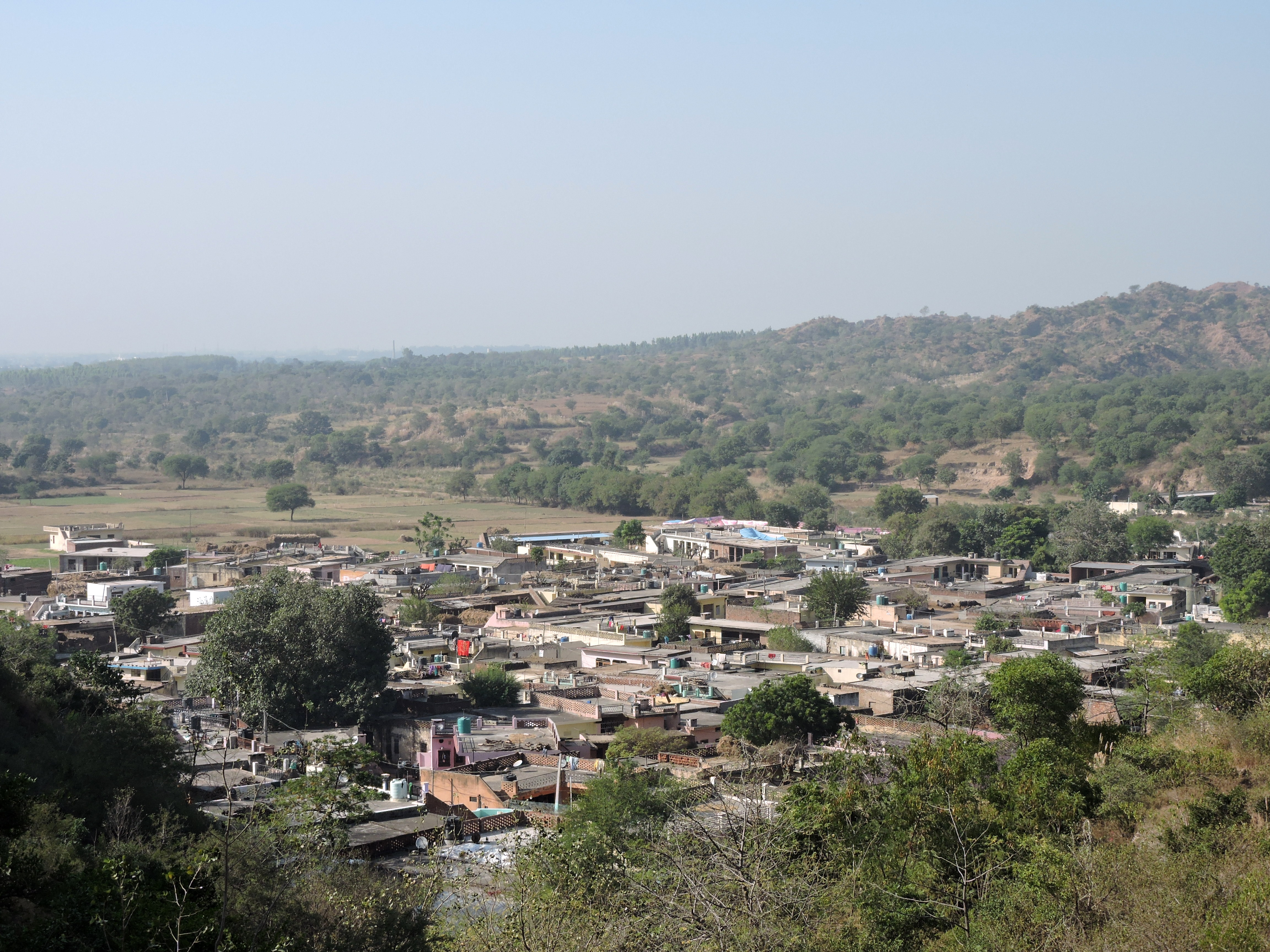 Jayanti Majri village hillock is famous for Jayanti Devi Temple located here . It is 15 km from Chandigarh in mohali district of Punjab